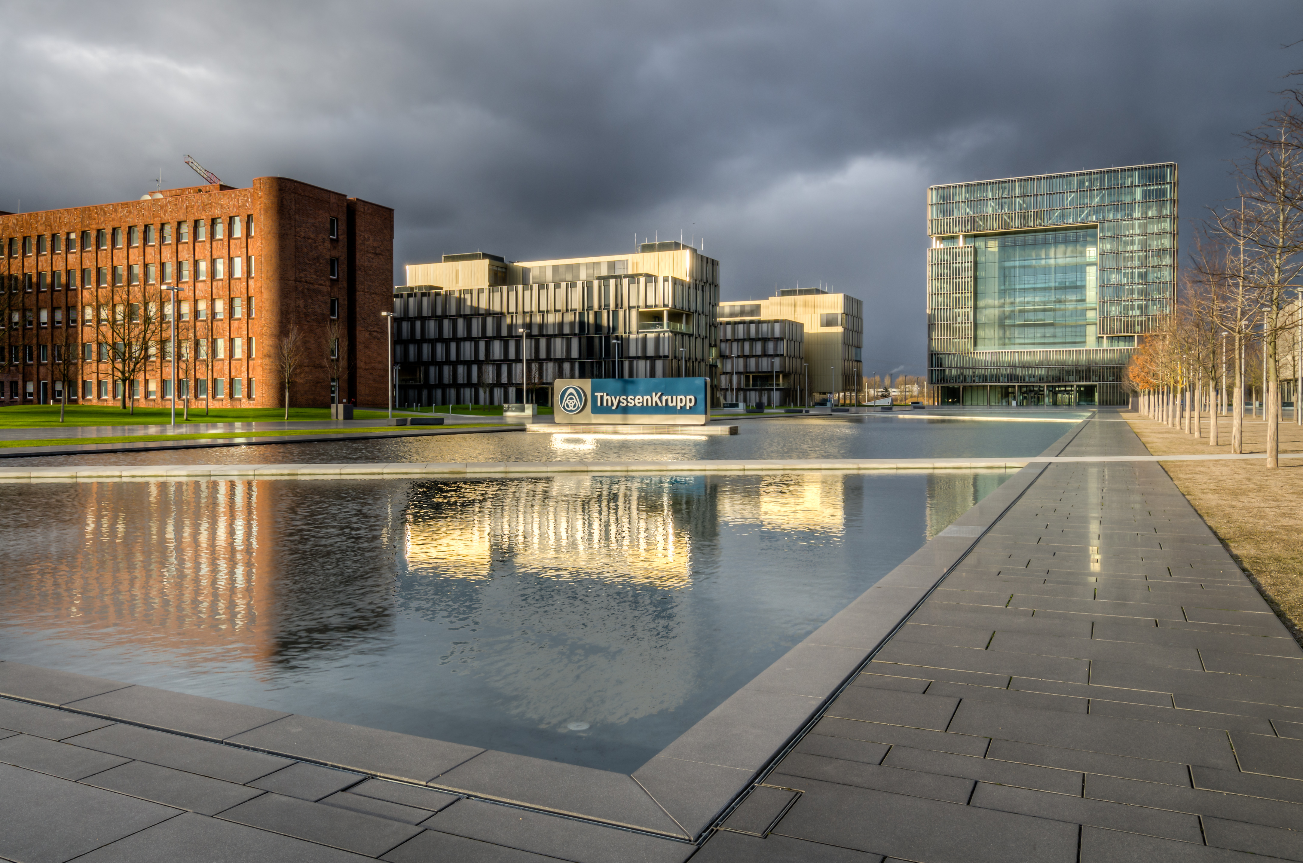 Corporate Headquarter of ThyssenKrupp